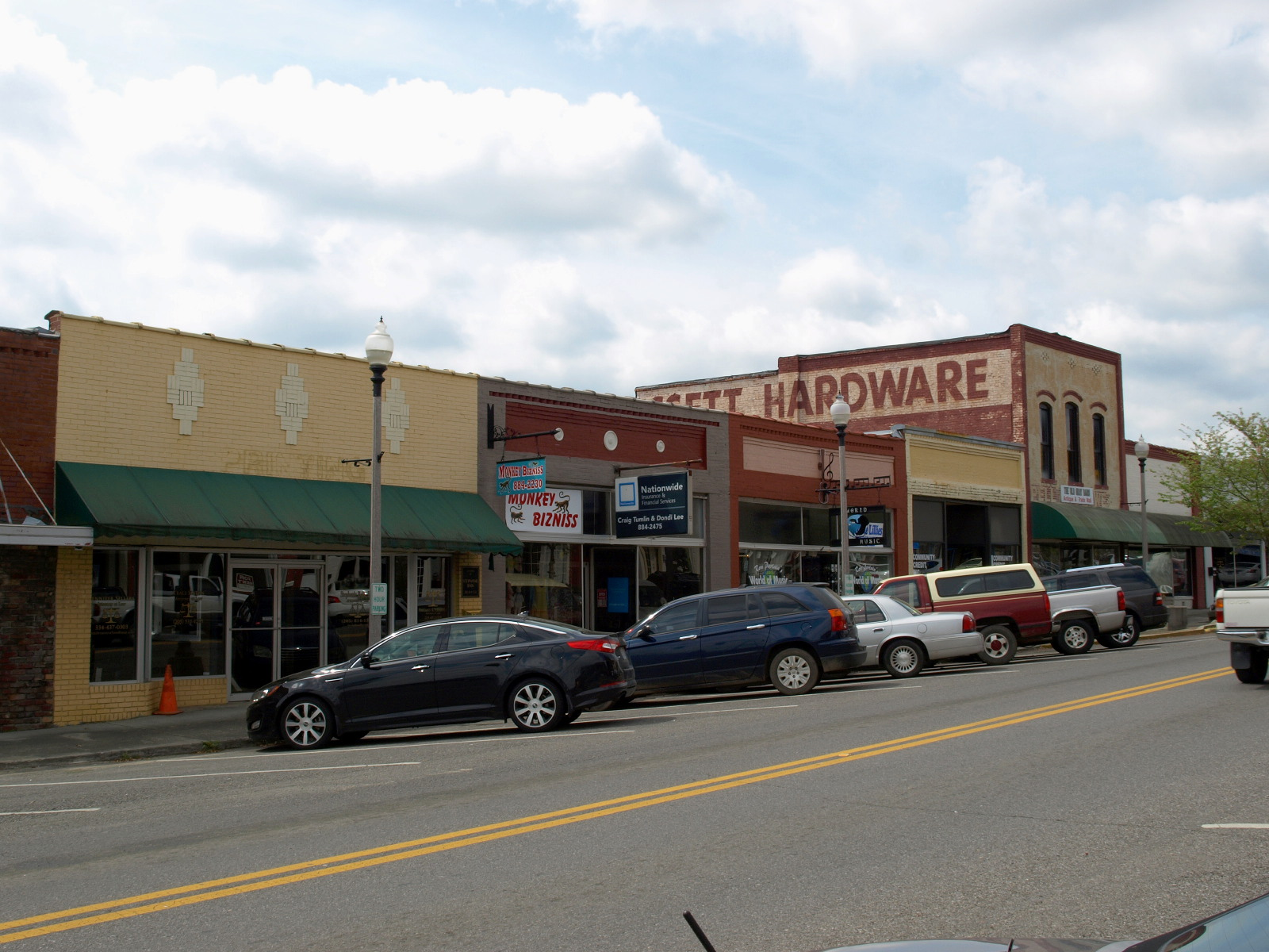 Buildings on the 1900 block of Cogwell Avenue in Pell City, Alabama, part of the Pell City Downtown Historic District.